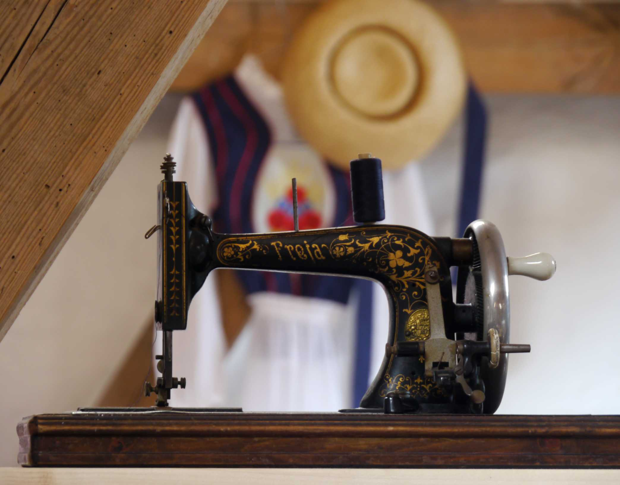 Freia Sewing machine (Sewing Machine Museum Sommerfeld / Kremmen)